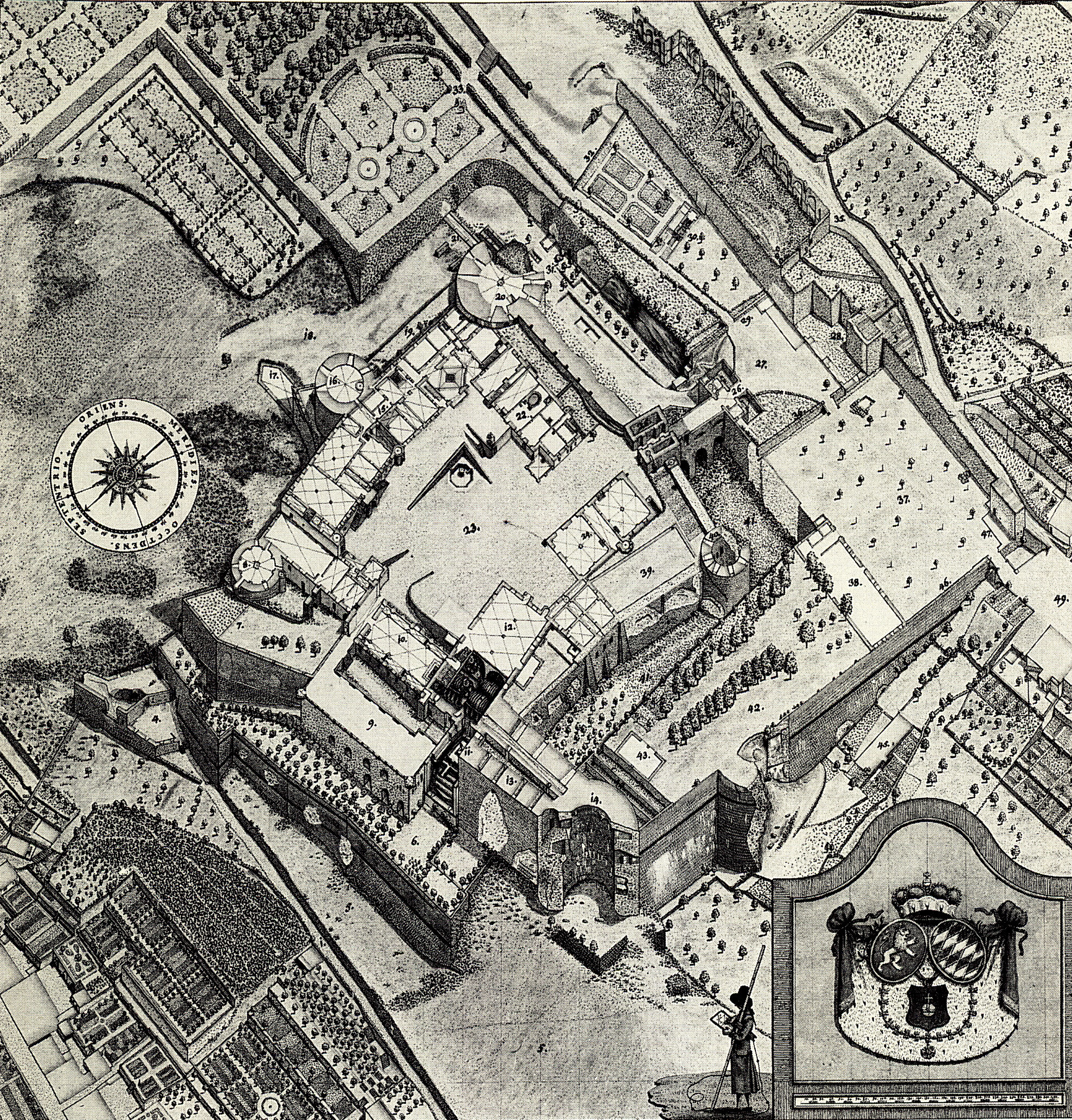 historic map of Heidelbergs Hortus Palatinus